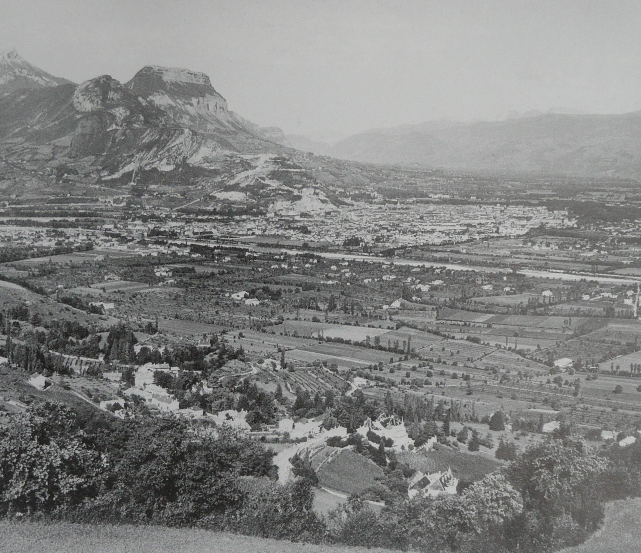 Grenoble in 1929, heading north, on the left the Chartreuse massif with the dominant Mont Saint-Eynard, at the right side Belledonne.